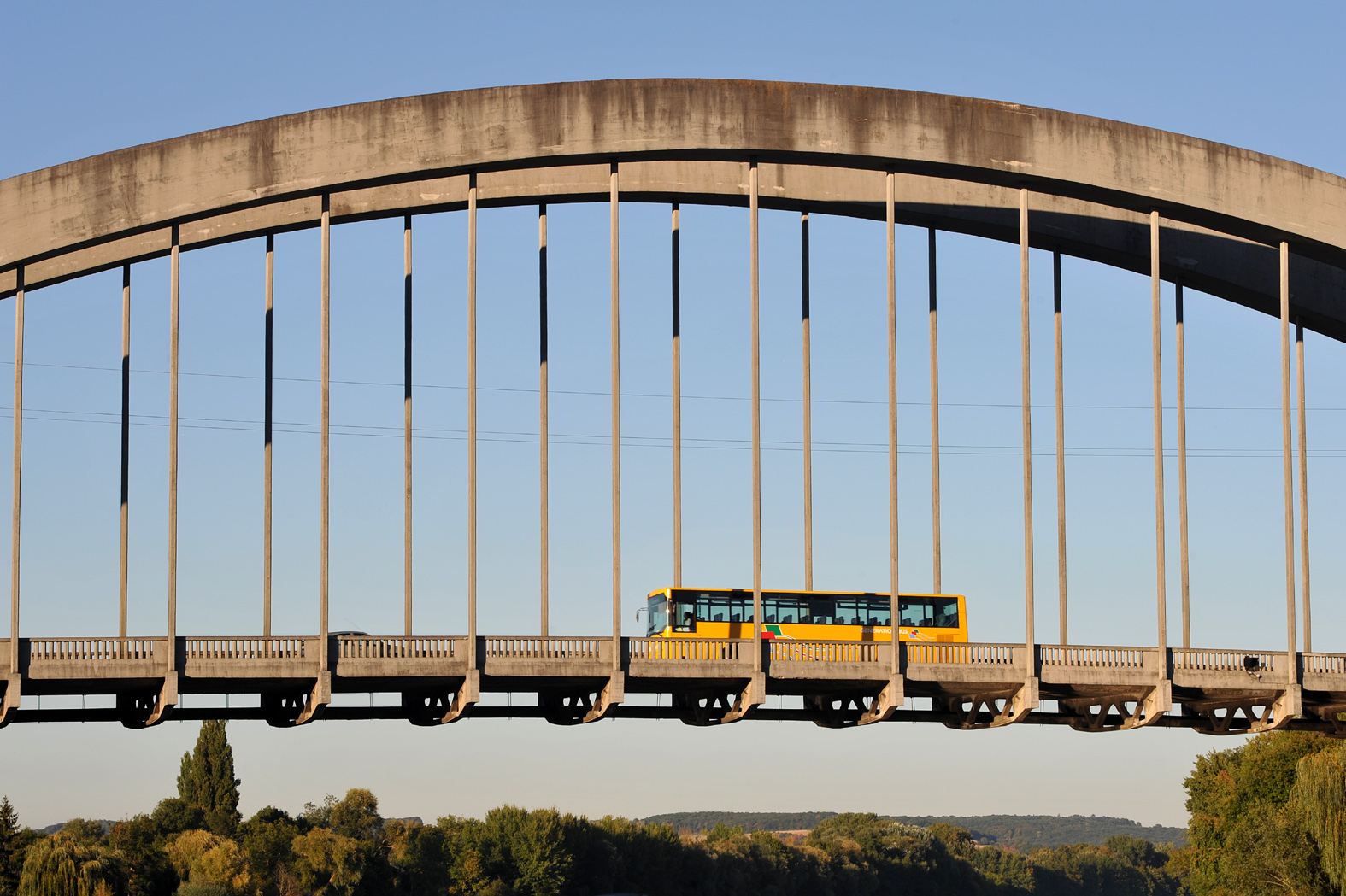 Bridge over the Seine river near Saint-Pierre-du-Vauvray; Eure, France.